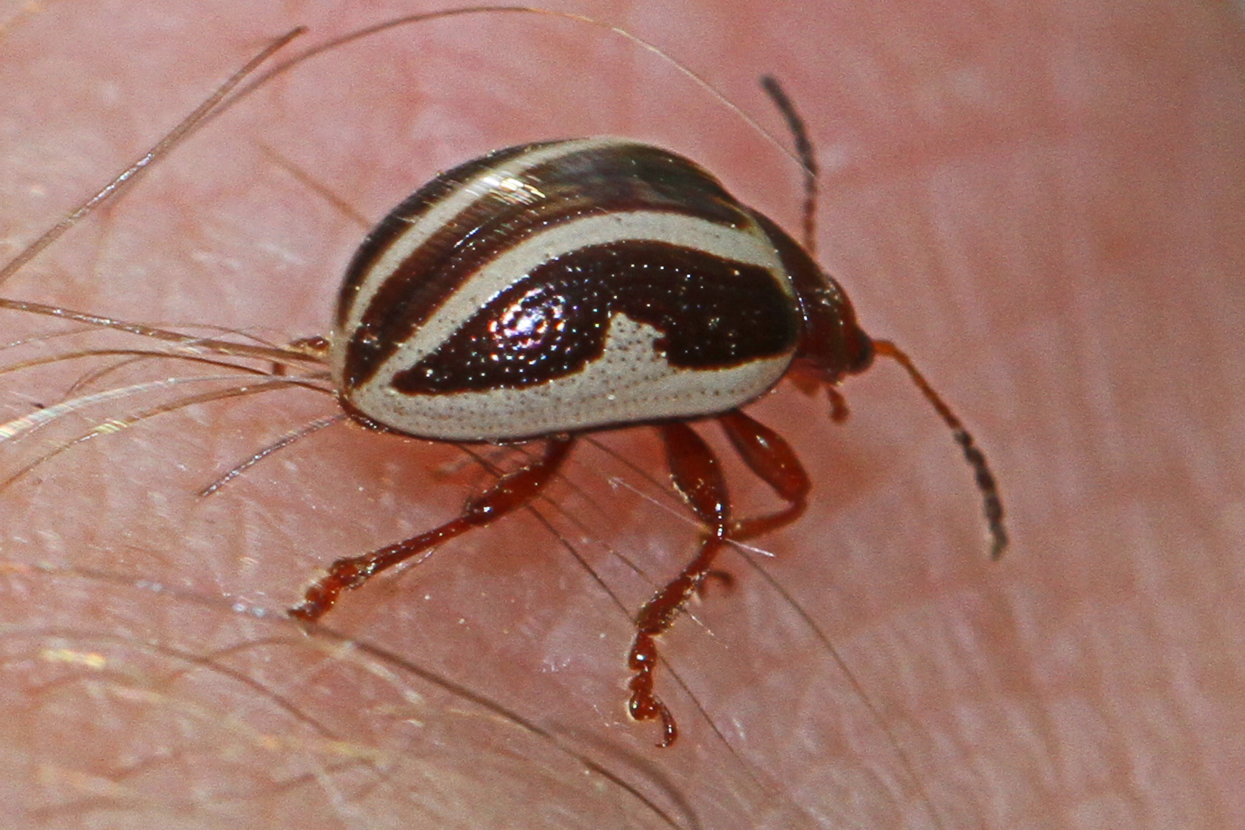 Ragweed leaf beetle - Zygogramma suturalis, Merrimac Farm Wildlife Management Area, Virginia.